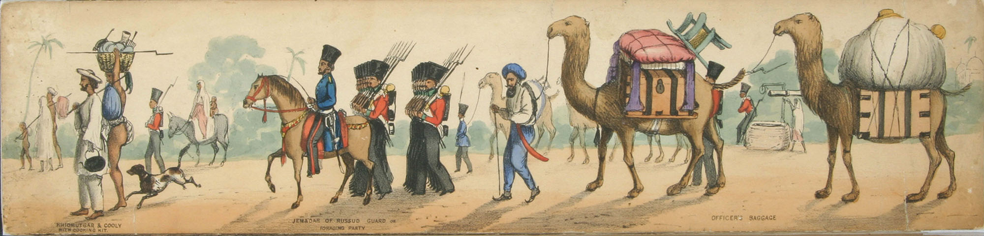 Line of March of a Bengal Regiment of Infantry in Scinde. Circa 1843.